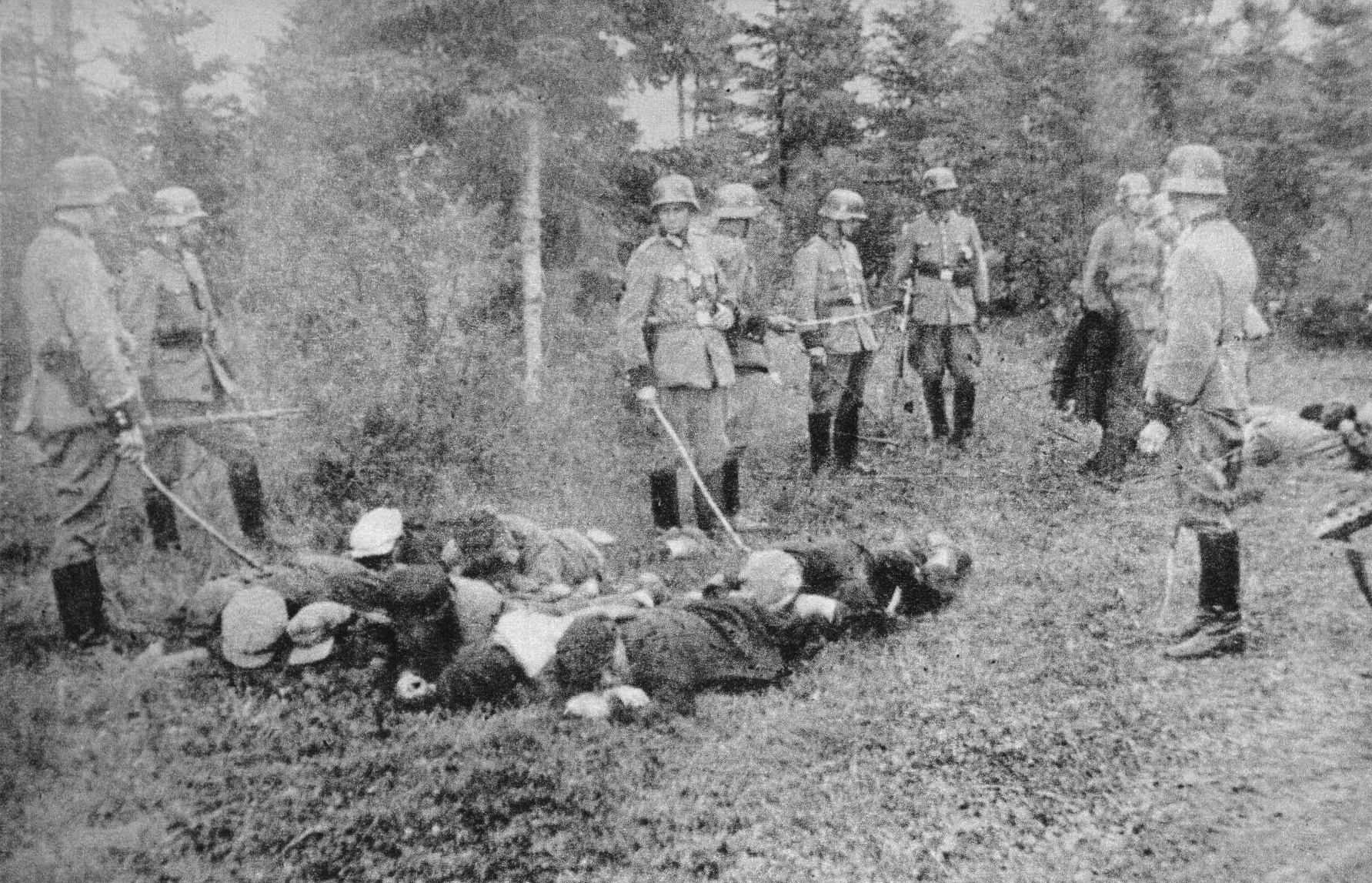 Mass execution of Poles in Rudzki Most forest near Tuchola, conducted by SS members and ethnic Germans – members of so-called "Volksdeutscher Selbstschutz". Between 24 October and 10 November 1939 exactly 335 Poles were executed in Rudzki Most.